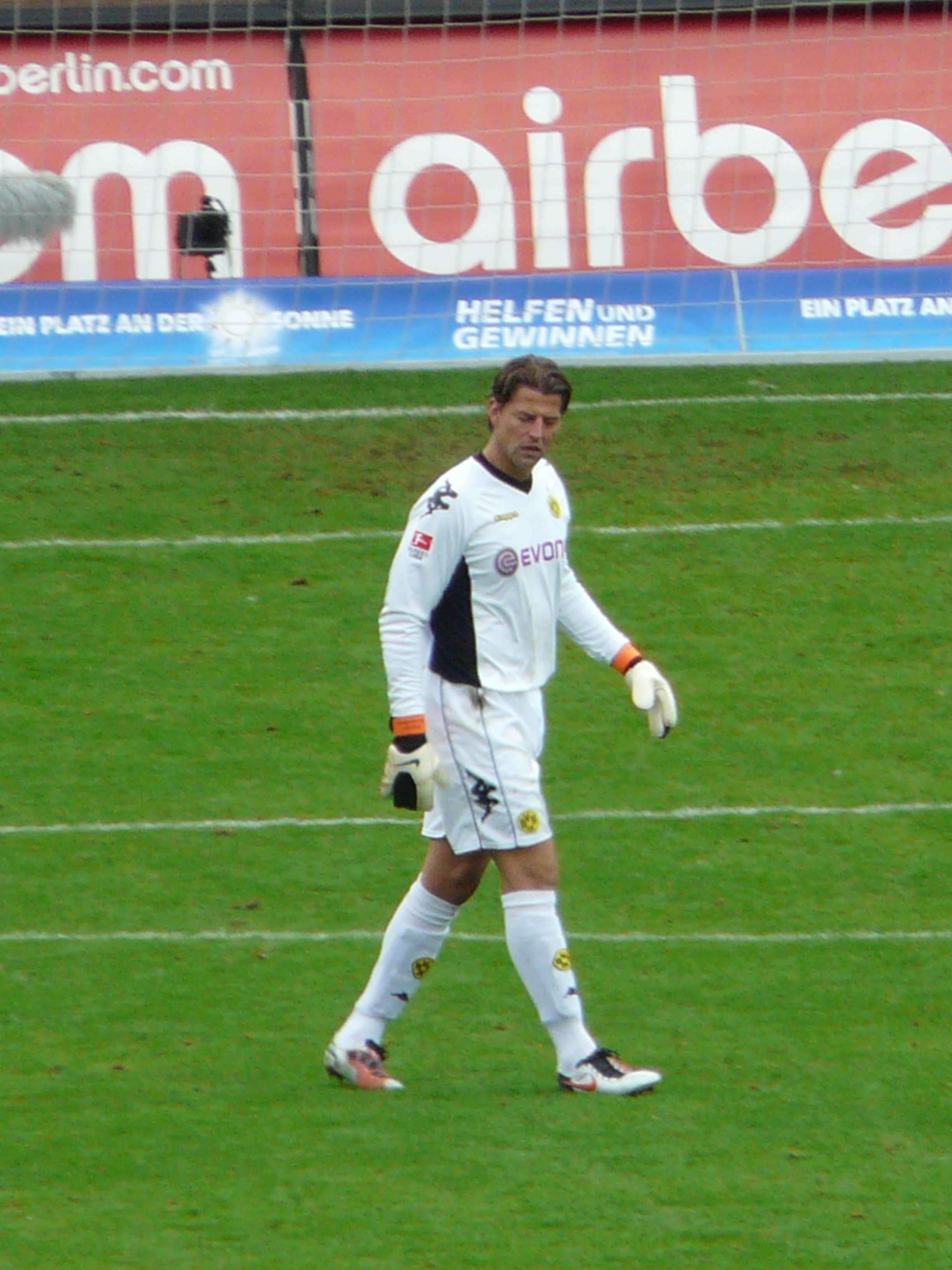 Roman Weidenfeller in Dress from Borussia Dortmund